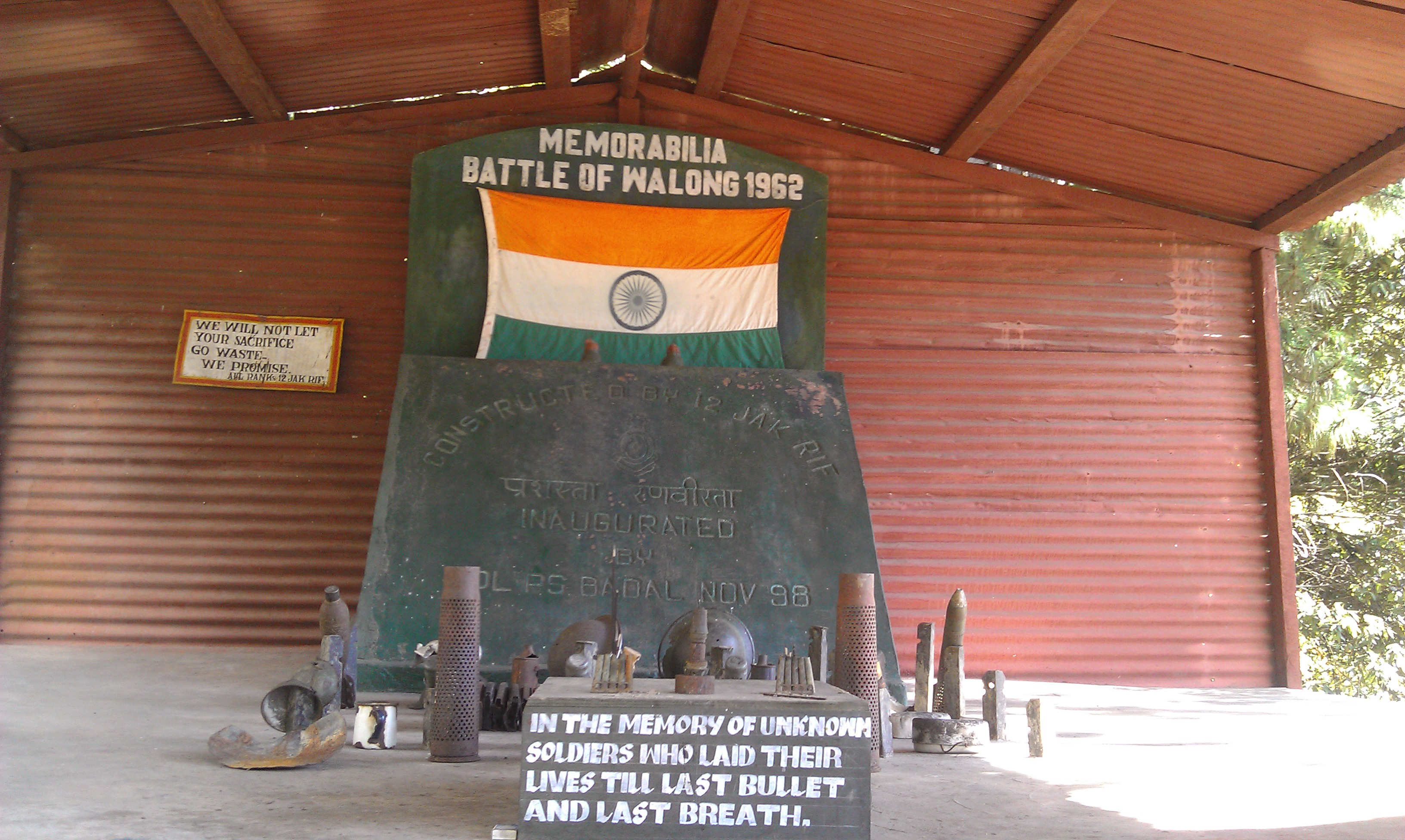 'Helmet Top', memorial at Walong in Anjaw District of Arunachal Pradesh, India. This memorial is build for the Walong war of 1962.